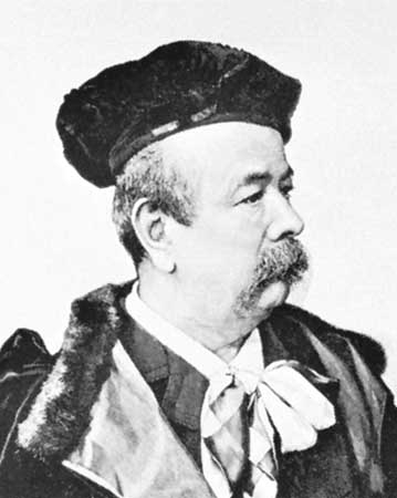 Photograph of the couturier Charles Frederick Worth